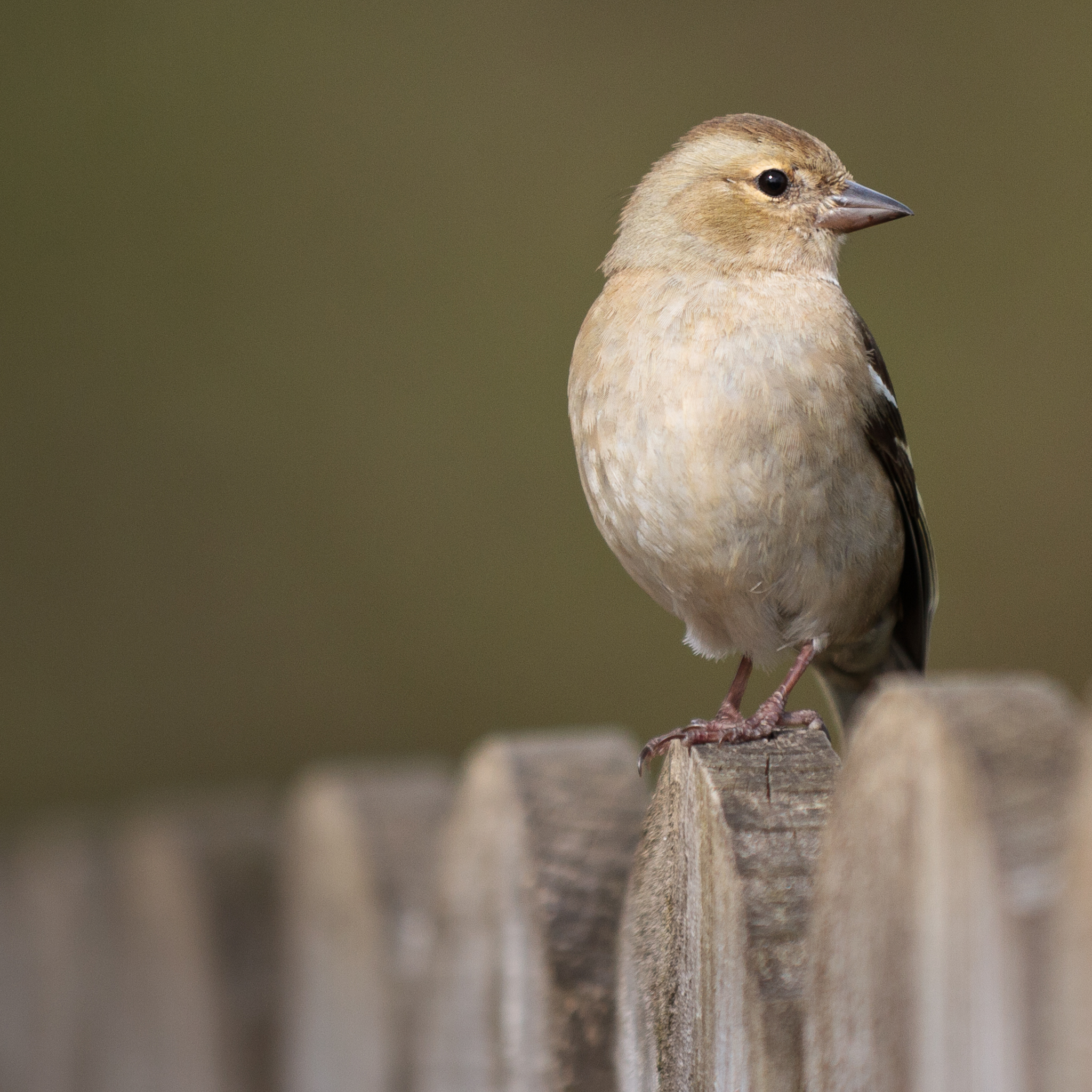 An adult female Chaffinch in Ireland.